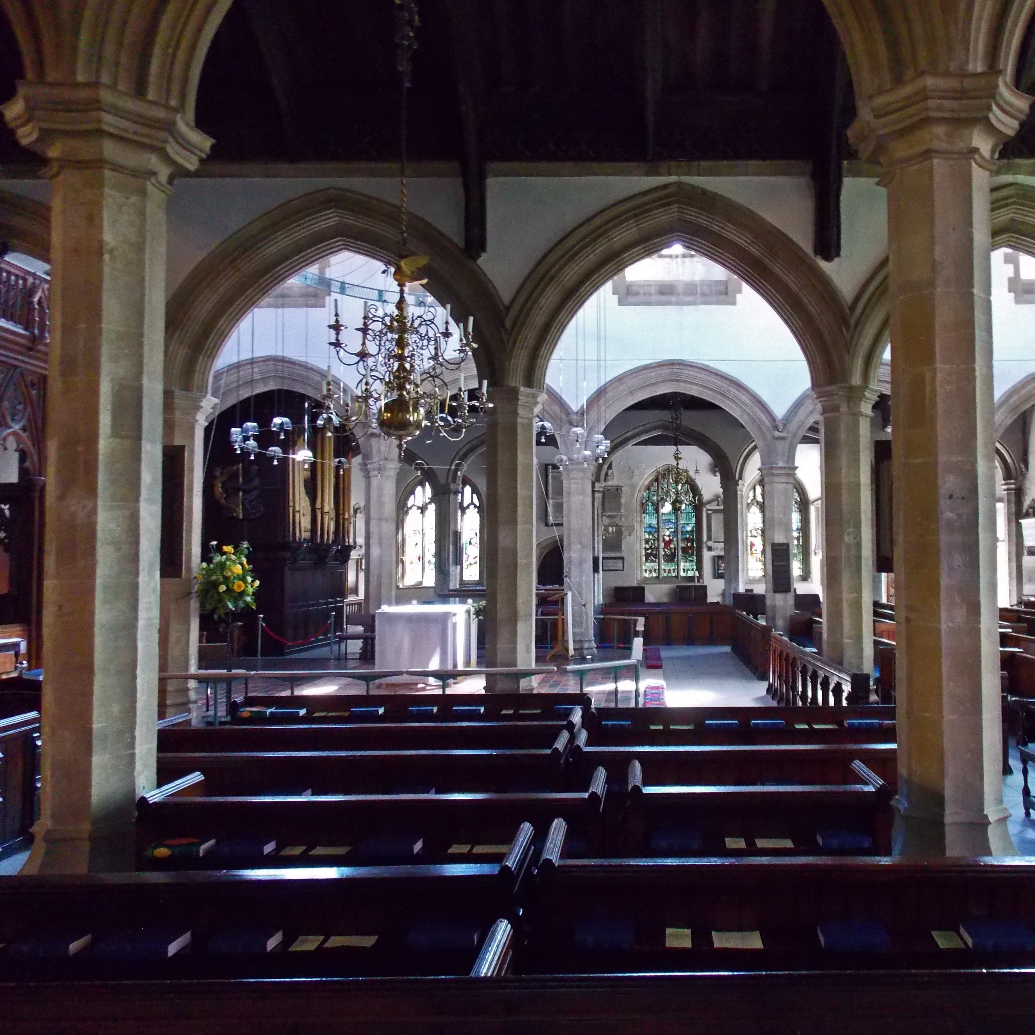 Interior of the Church of St Helen, Abingdon, Oxfordshire.